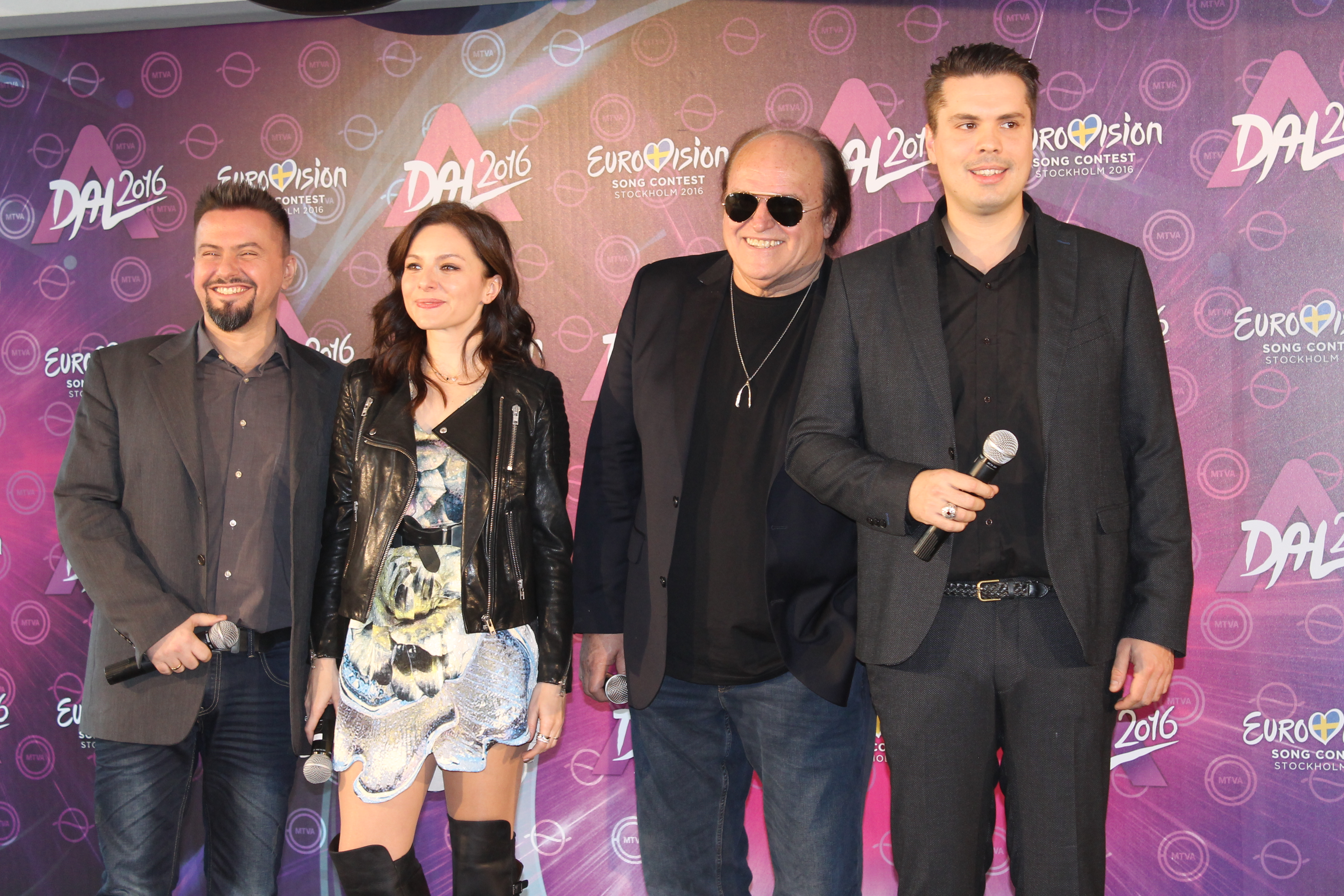 The jury of A Dal 2016 (from left to right: Pierrot, Zséda, Károly Frenreisz, Miklós Both)